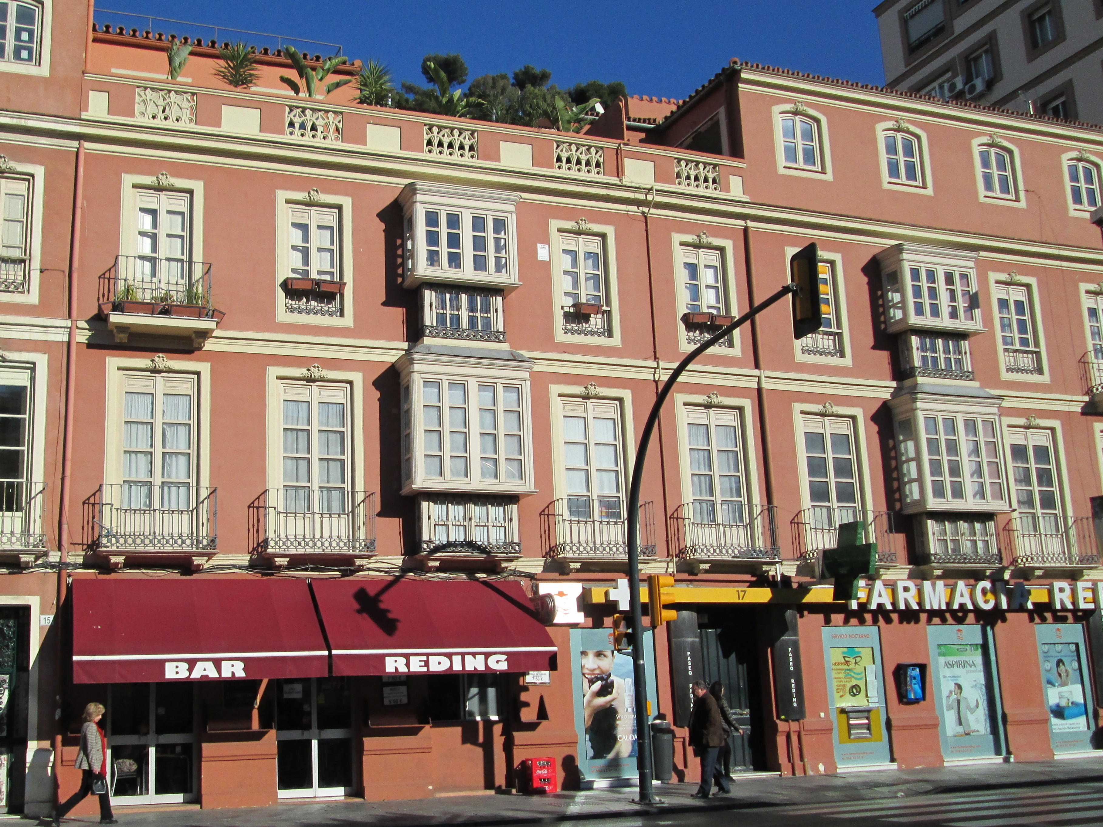 Paseo de Reding